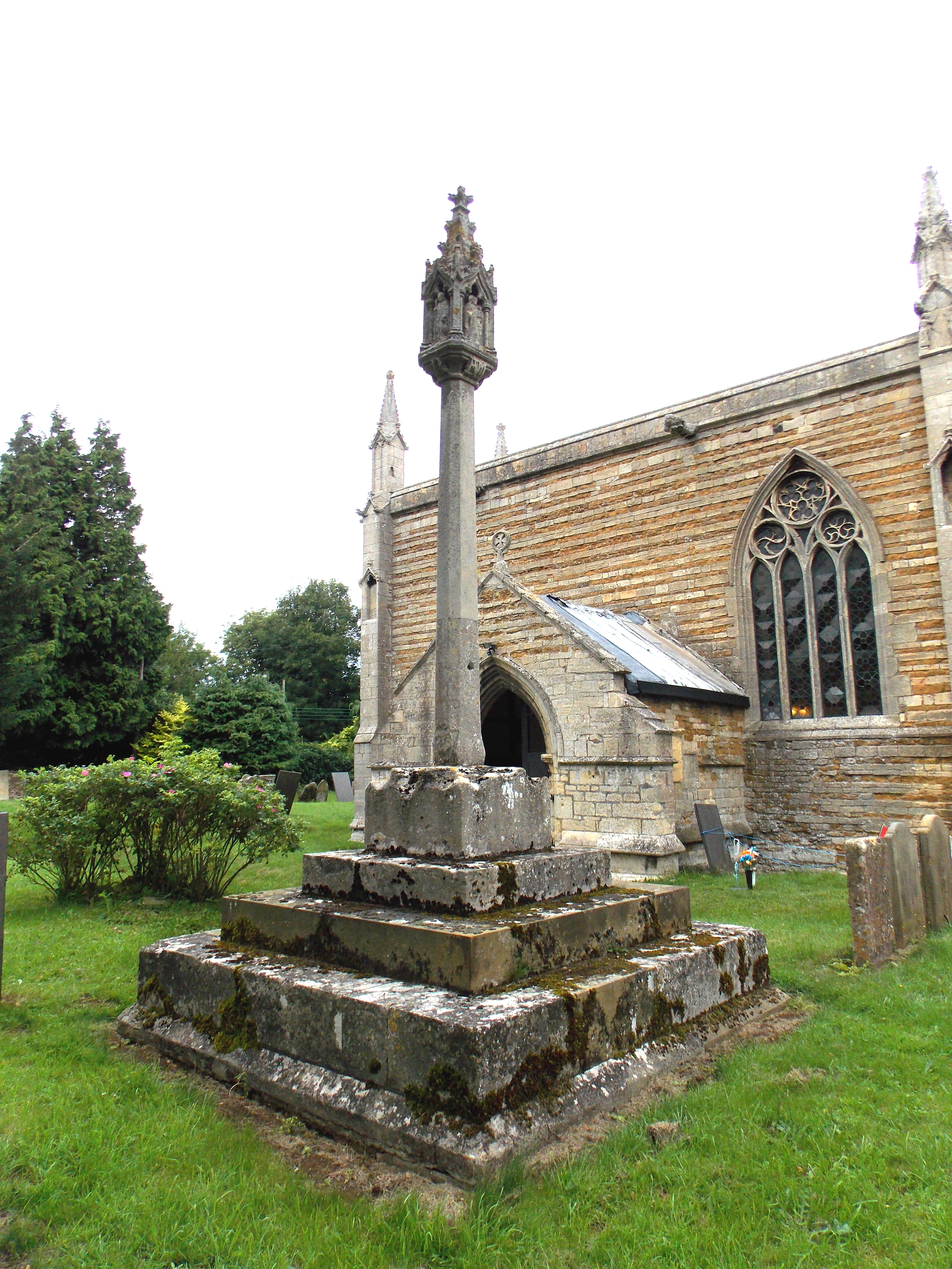 Churchyard cross in St Vincent's parish churchyard, Caythorpe, Lincolnshire, seen from the southeast. In the background is the south porch of St Vincent's parish church.